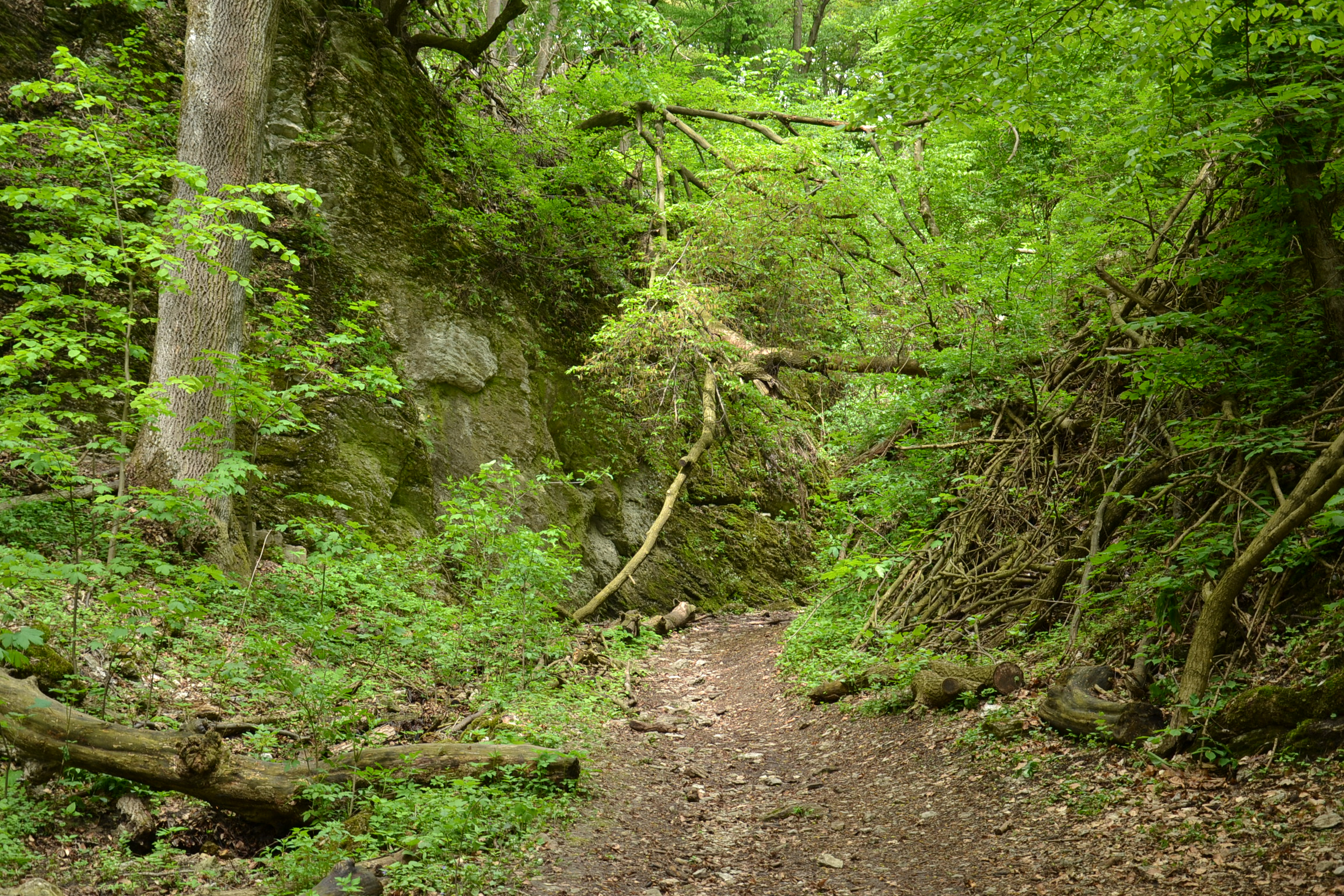 Hiking trail nr 2412 in Slovakia